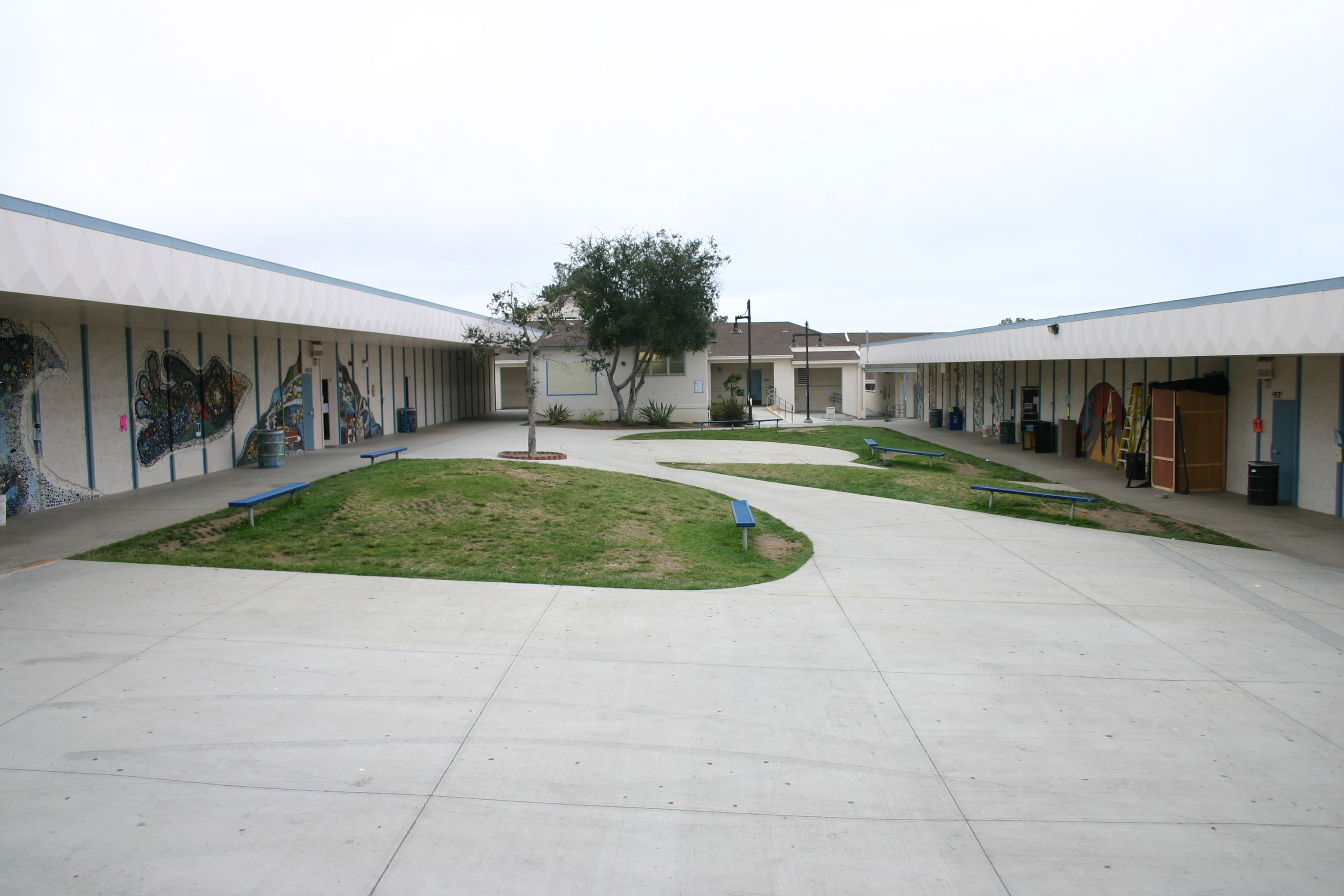 San Dieguito Academy Object location33° 02′ 16.11″ N, 117° 16′ 27.56″ W